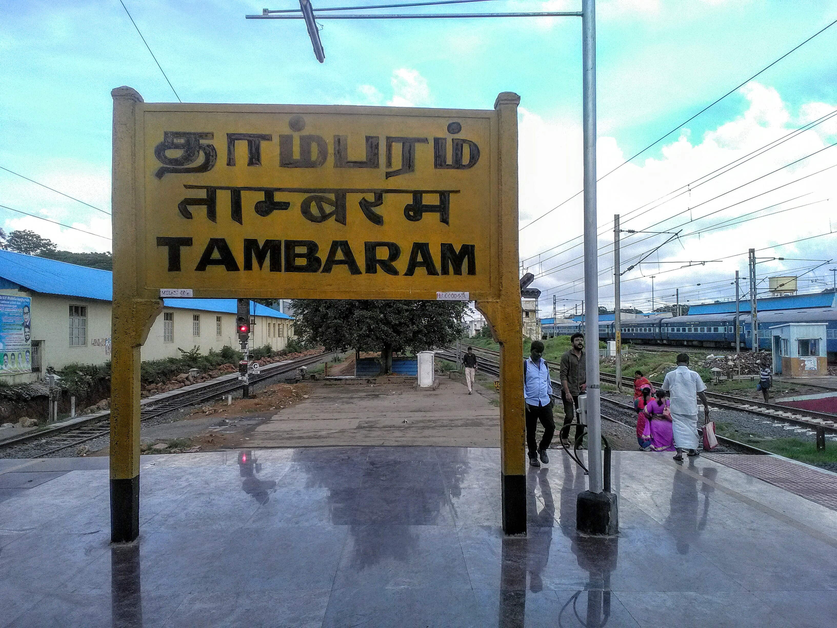 Tambaram Railway Station Inside ..